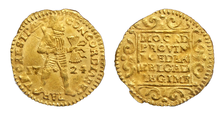 Netherlands, gold ducat 1724 from the Dutch East India Company (VOC) shipwreck 'de Akerendam'.